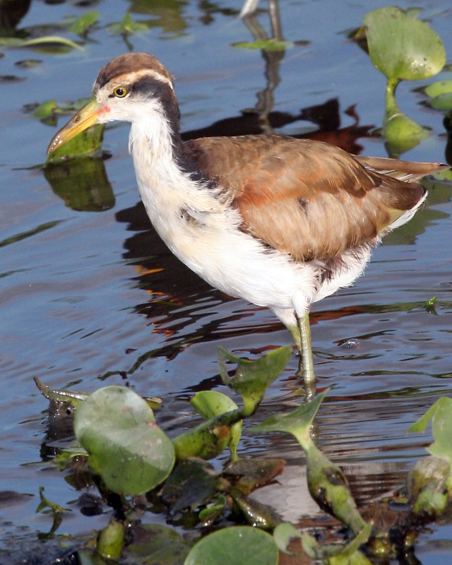 Wattled Jacana Jacana jacana juvenile Ibera Marshes, Argentina 2nd. April 2006